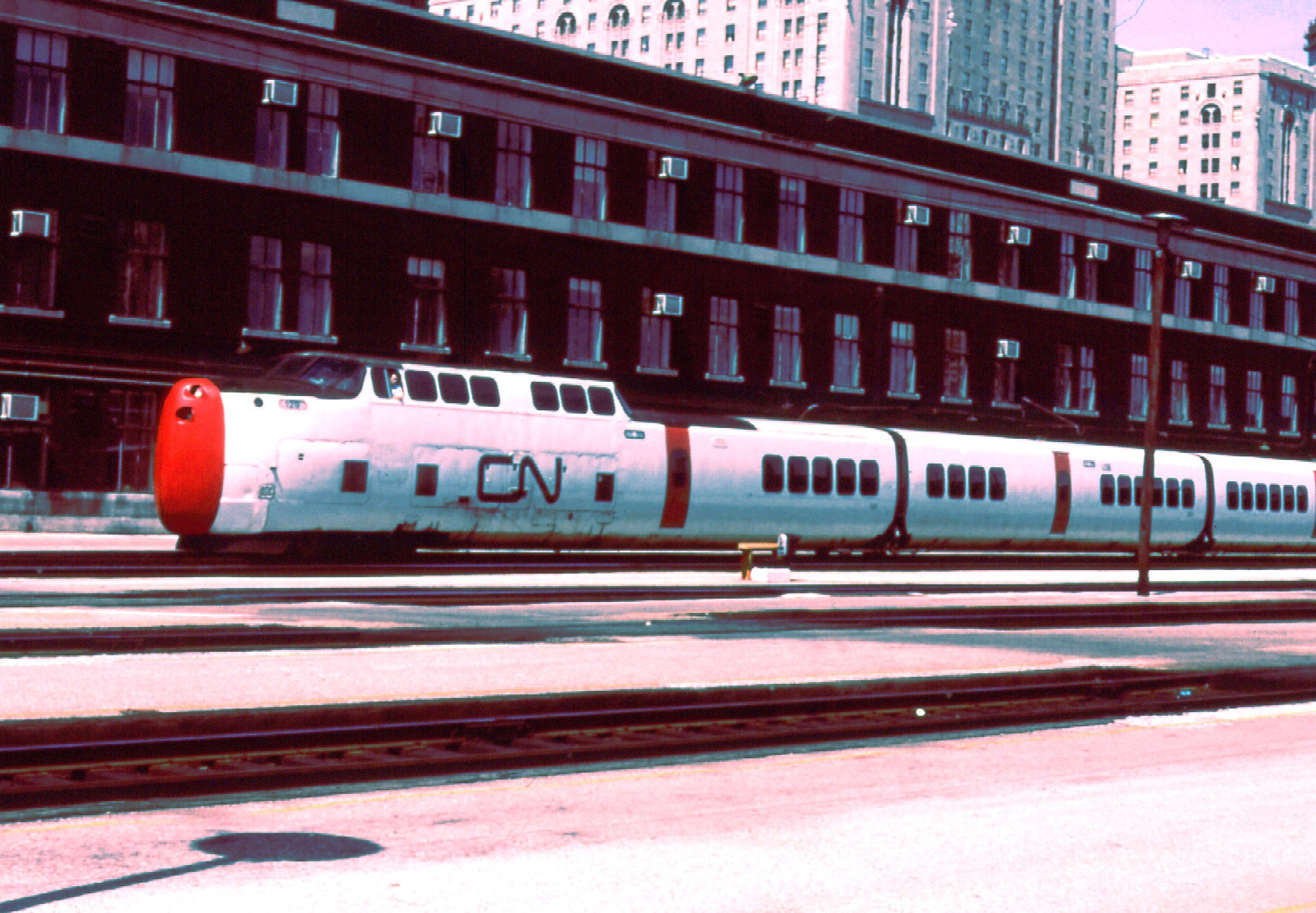 Before VIA rail took over the passenger service